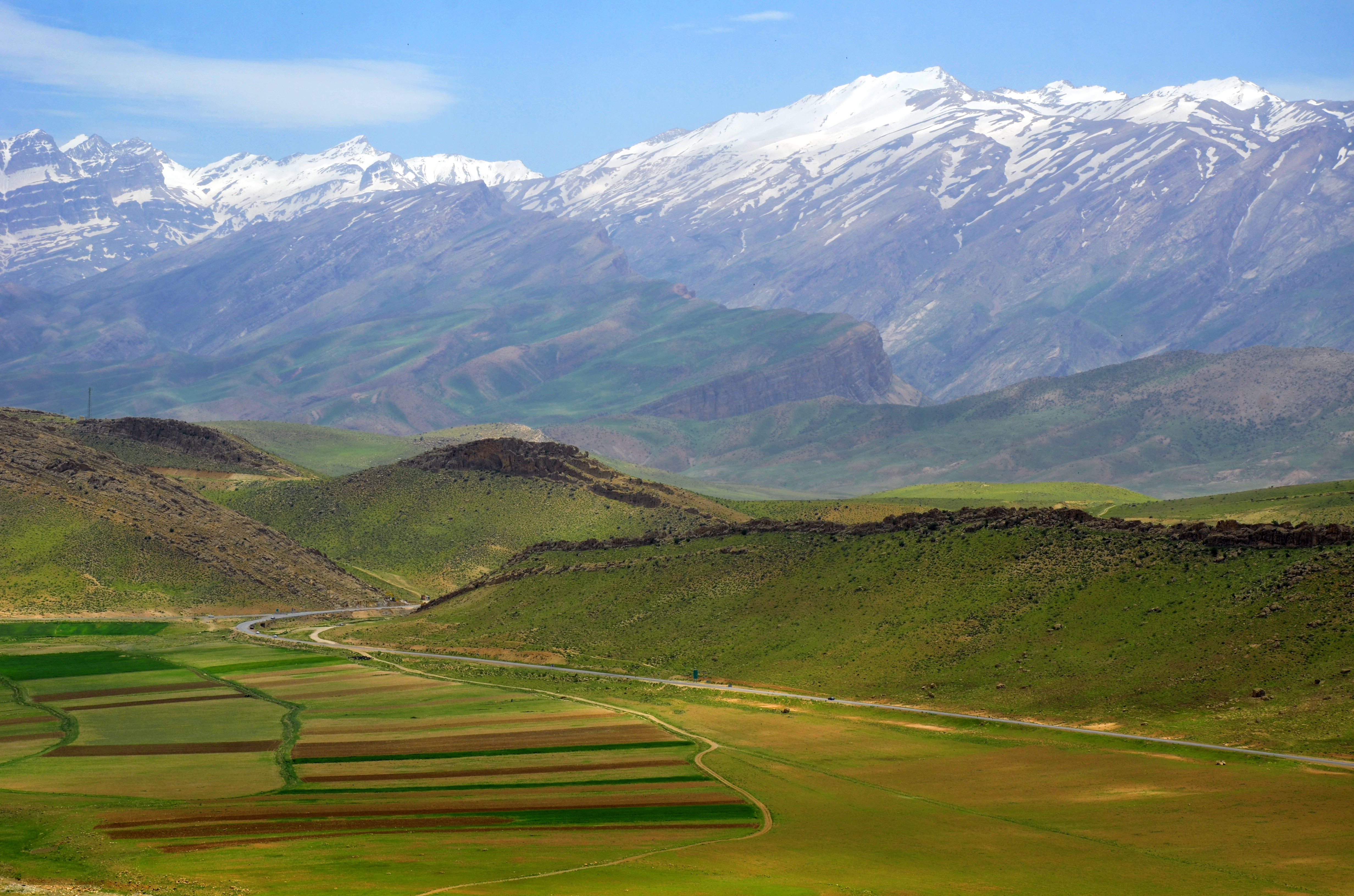 The view of Dena from Semirom road